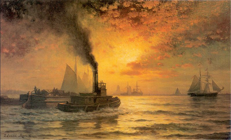 New York Harbour